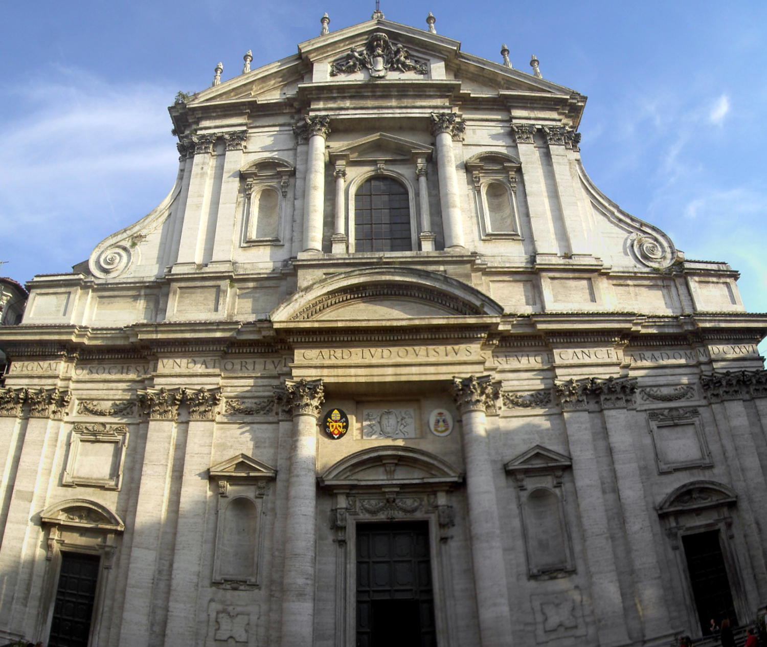 Sant'Ignazio Church, Rome